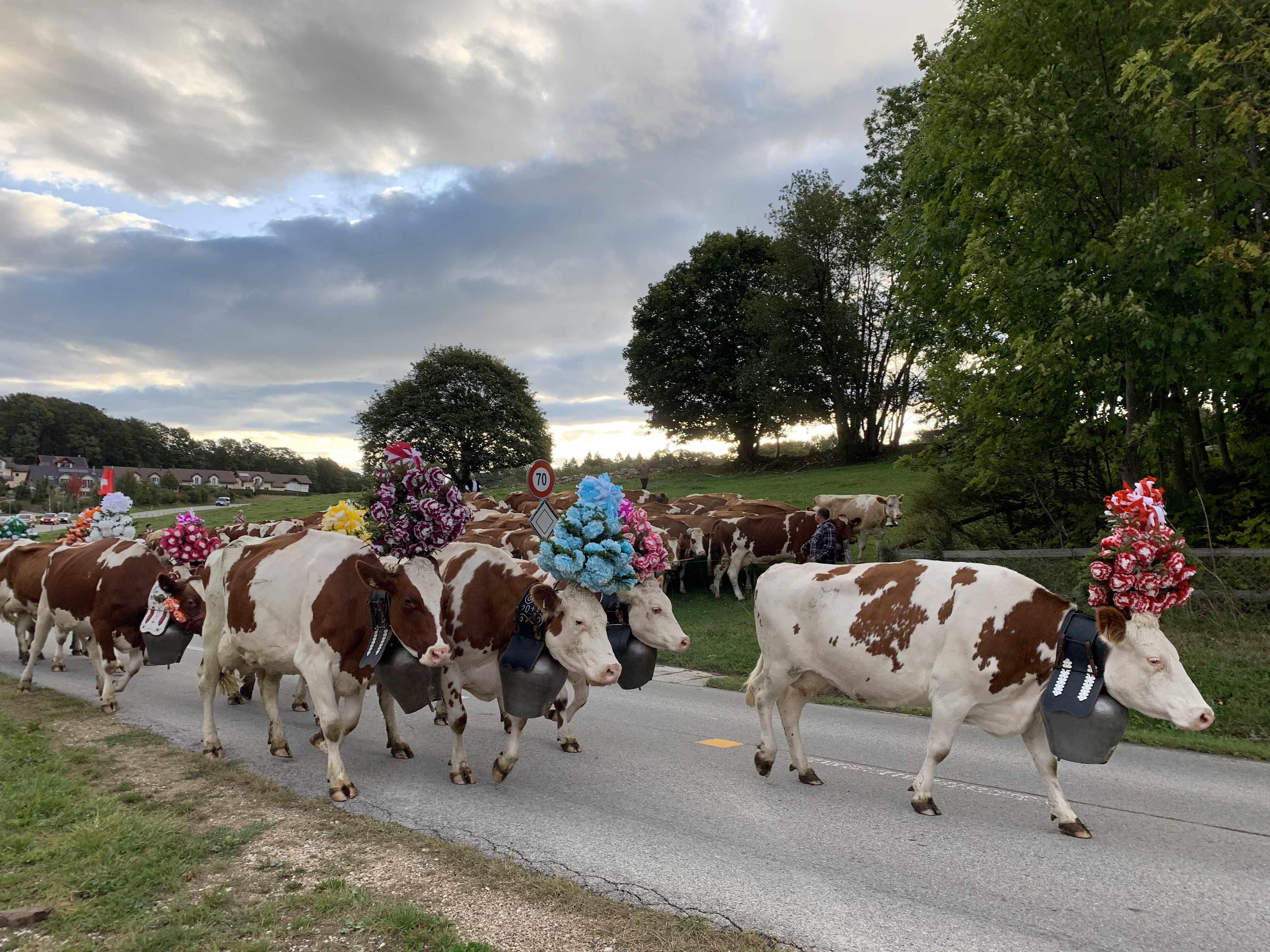 The herds leave the summer pastures and return to the plain for the winters and pass through the villages. The occasion of popular festivals where cows are decked with flowers.